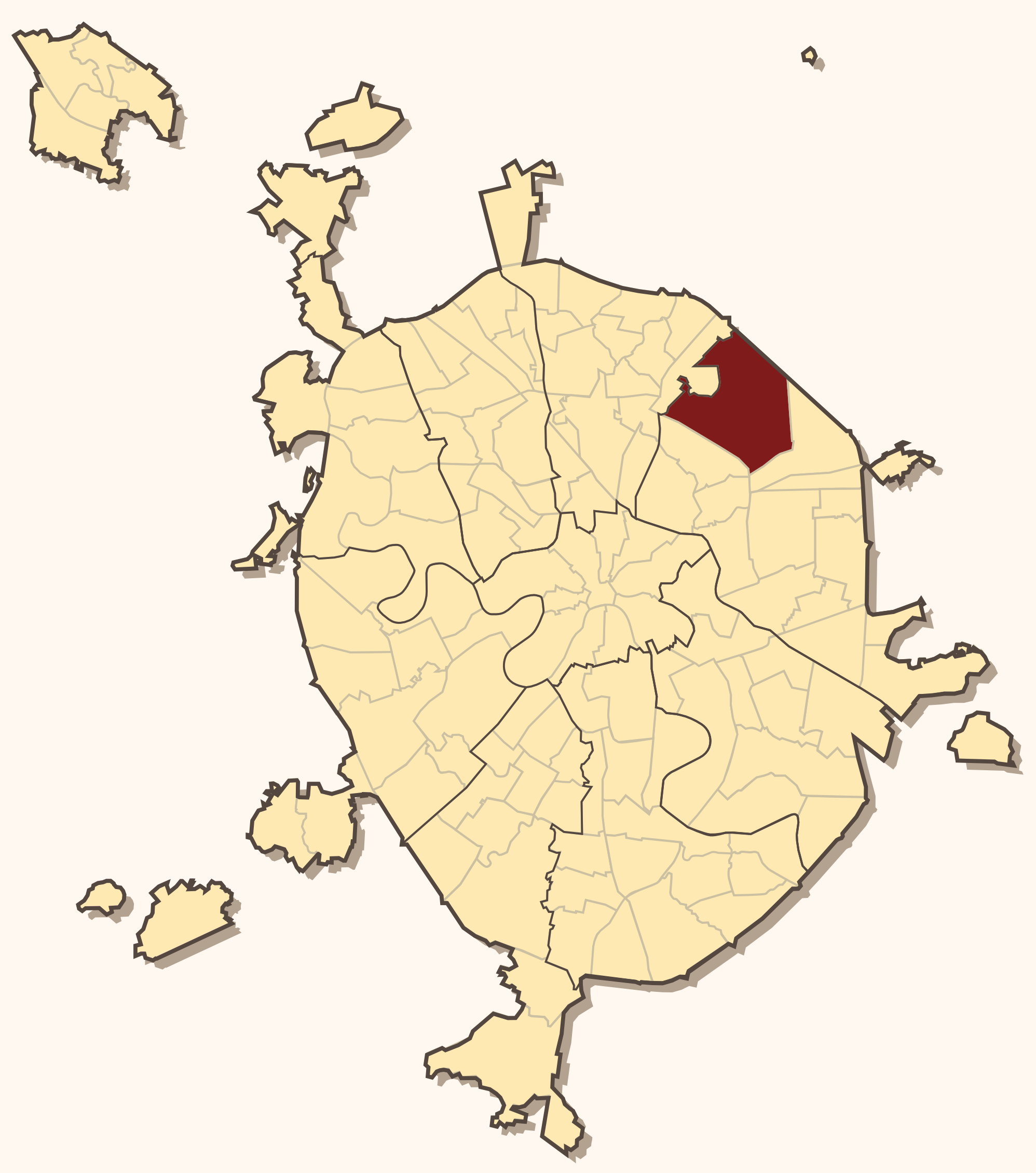 Moscow districts map